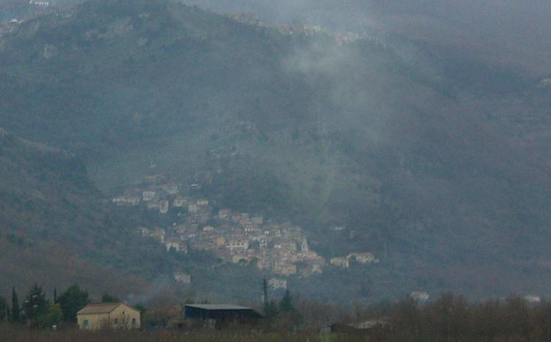 View of Galdo degli Alburni.